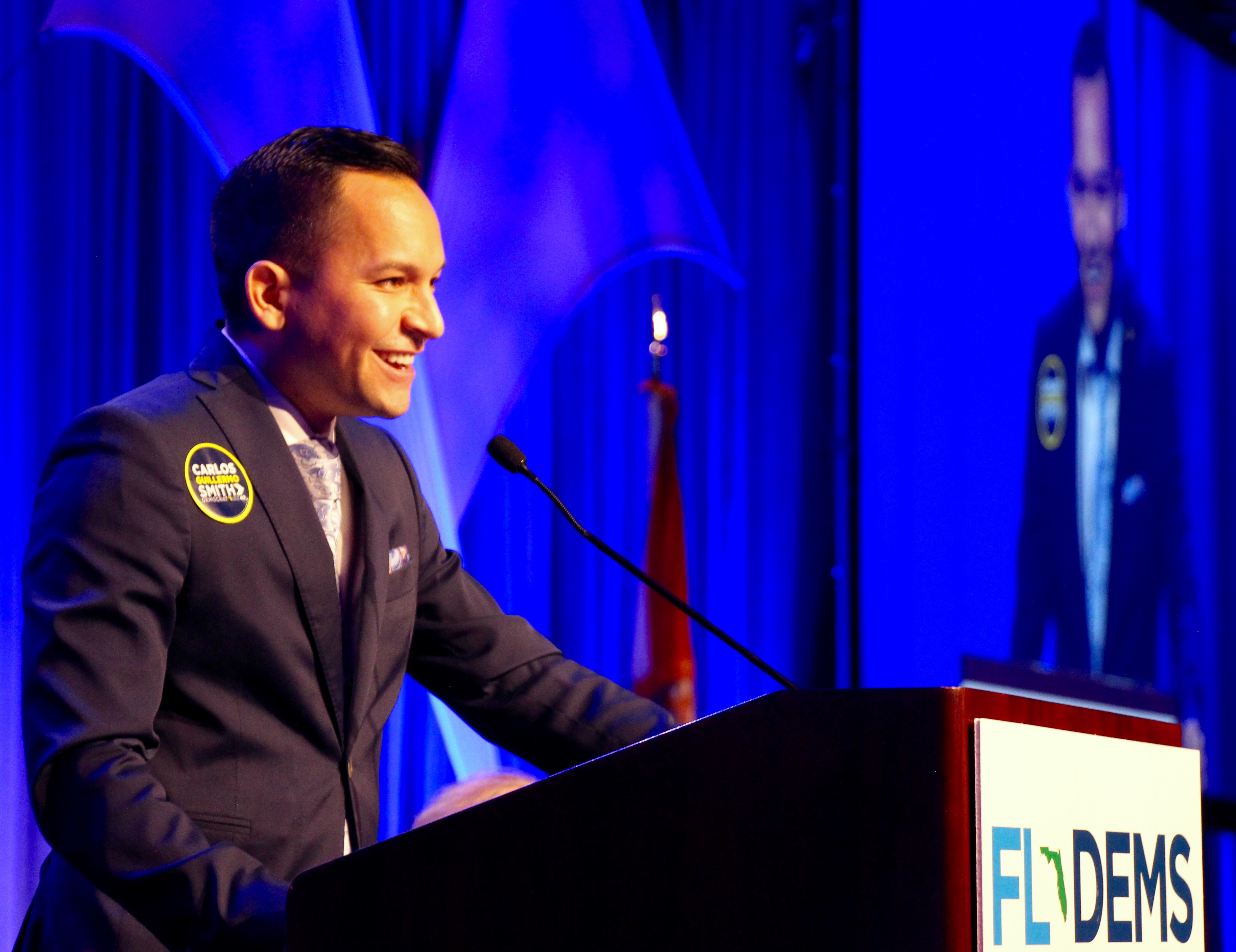 Carlos Guillermo Smith